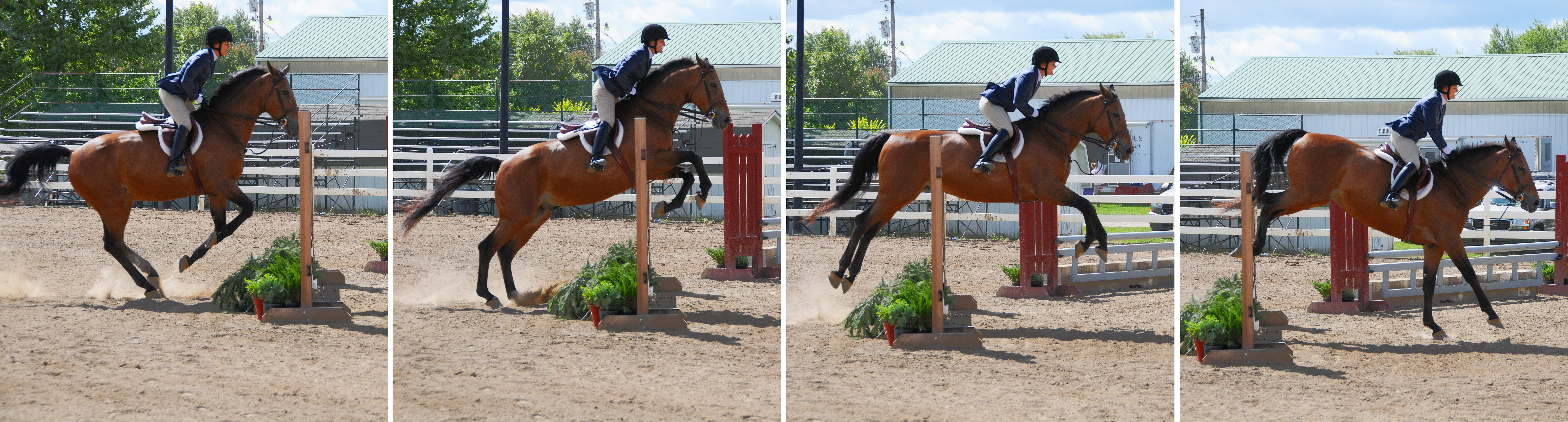 A show jumping sequence at the Delaware Horse Show.